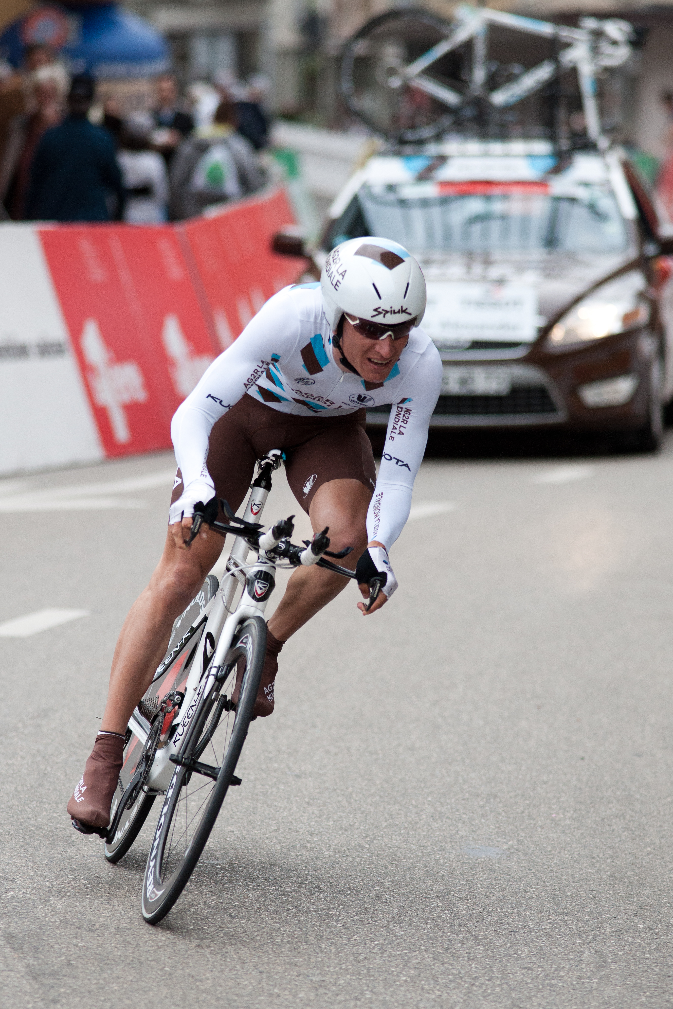 Alexander Efmikin during the 3rd stage of the Tour de Romandie 2010.